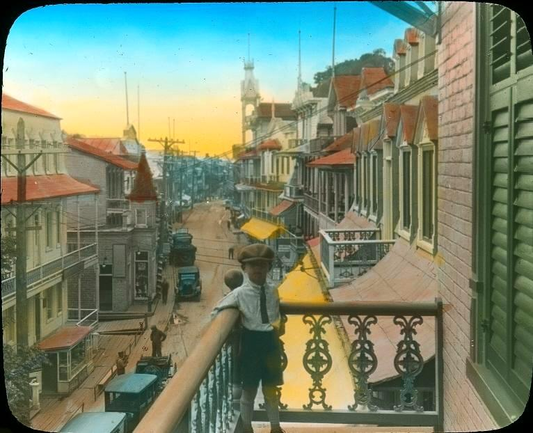 Street scene, Ste. Anne de Beaupré, QC, about 1925 About 1925, 20th century Silver salts and transparent ink on glass - Gelatin dry plate process 8 x 10 cm Gift of Mr. Stanley G. Triggs MP-0000.25.324